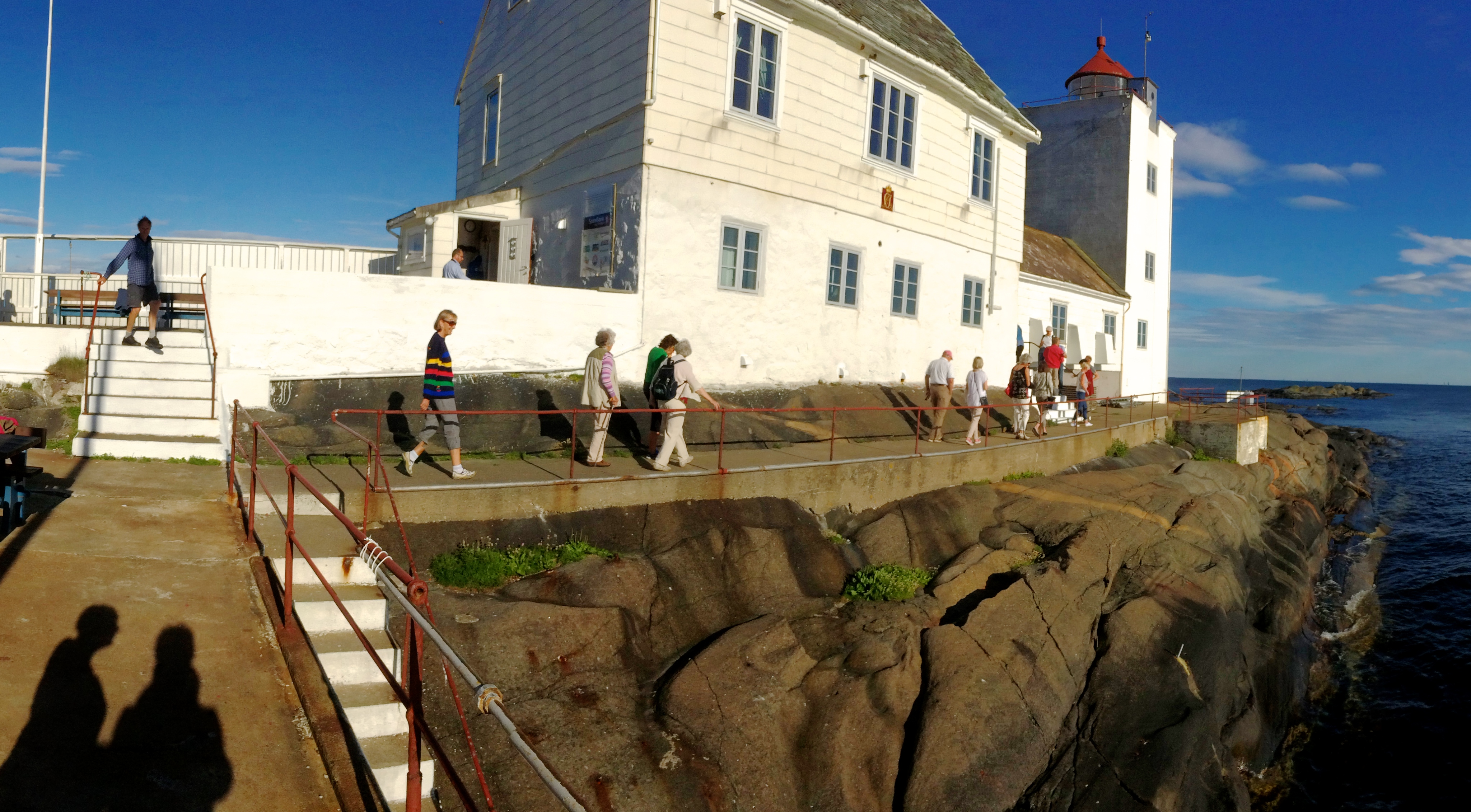 Fulehuk lighthouse (iPhone panoramic photo, distortion may occur in details and continuity.)